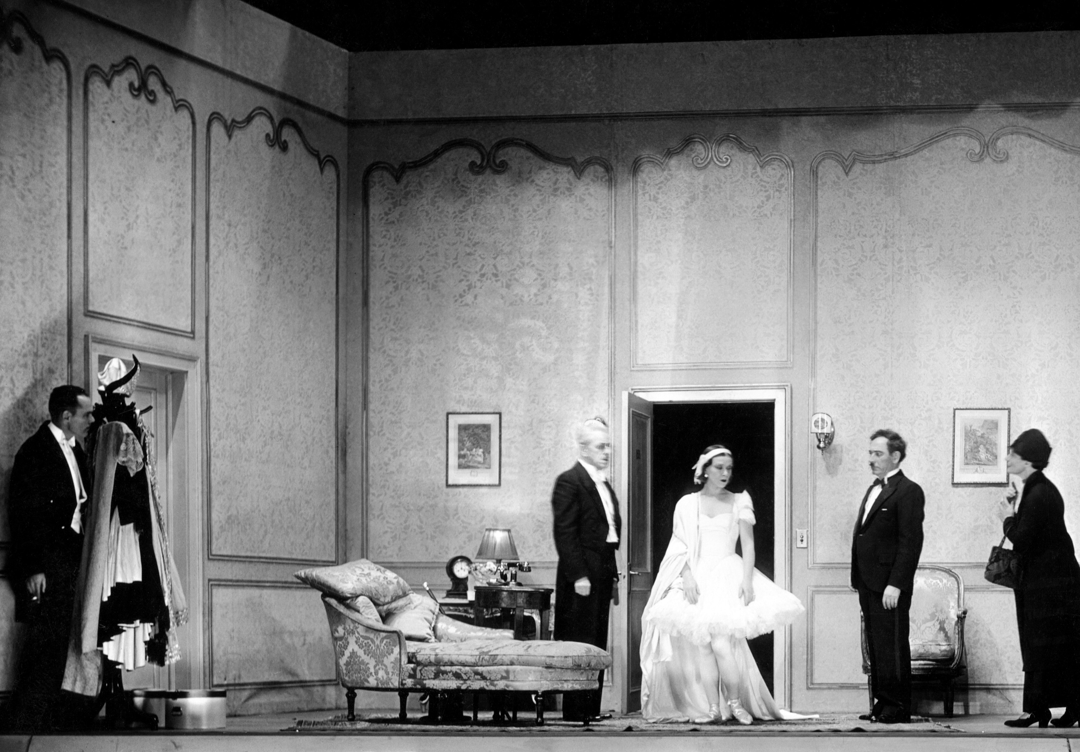 Promotional photograph of the original Broadway production of Grand Hotel (1930) Note on reverse side of original photograph reads as follows:"Grand Hotel"Act I – Scene 7"I wish to be alone" Cast from left: Henry Hull (Baron von Gaigern), William Nunn (Meierheim), Eugenie Leontovich (Grusinskaia), Lester Alden (Witte), Rafaela Ottiano (Suzanne)